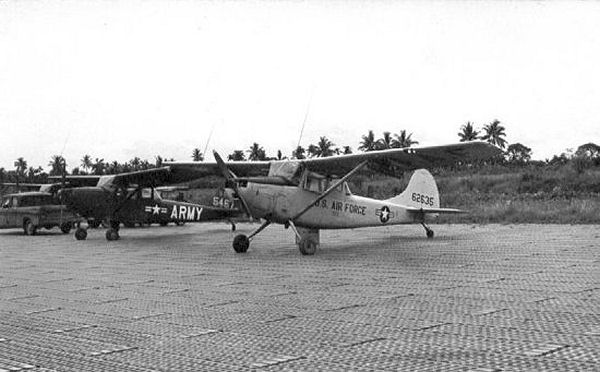 USAF Cessna O-1 "Bird Dog" light observation plane - South Vietnam.